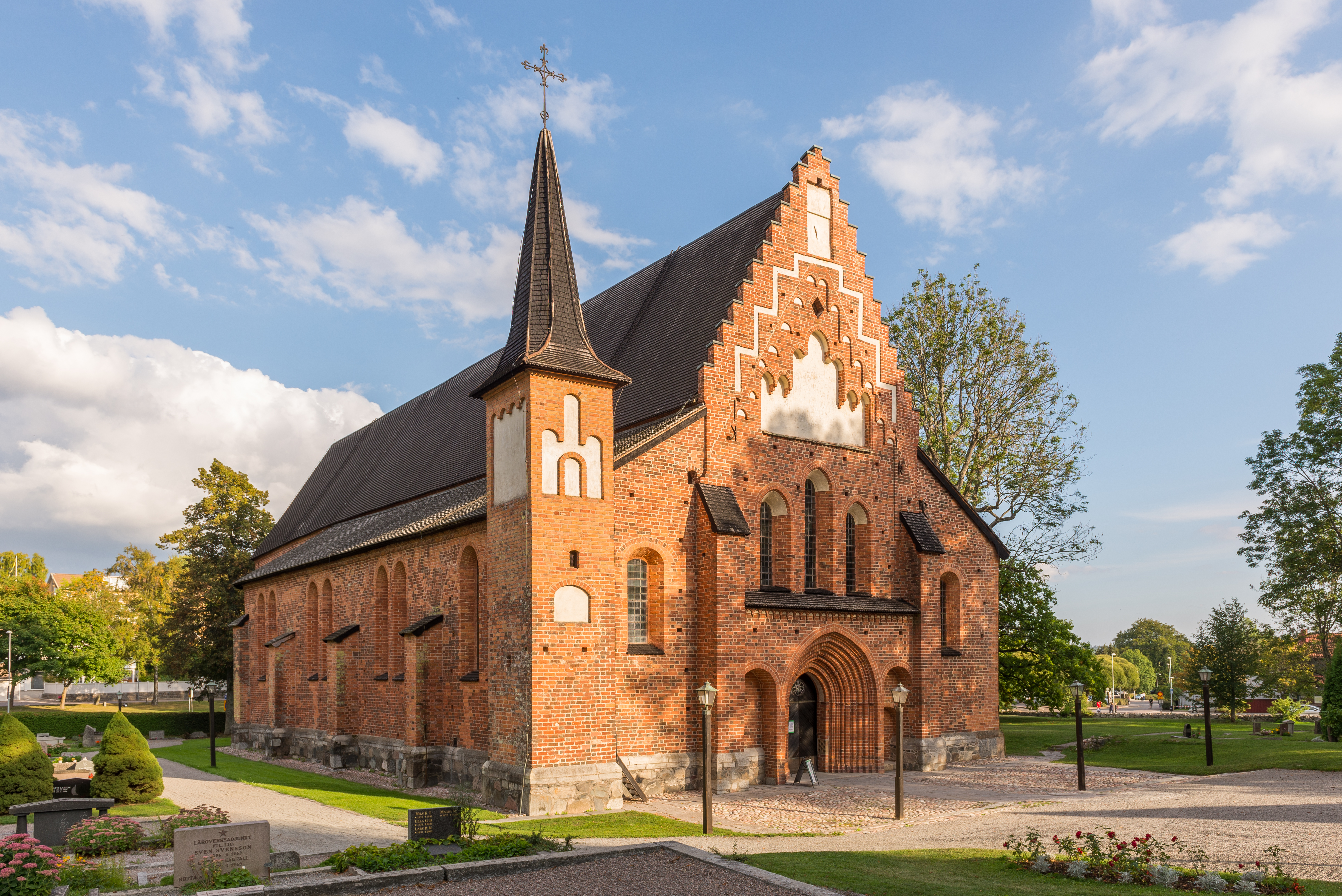 Mariakyrkan (Maria church), Sigtuna. Inaugurated as an abbey church in 1247, since 1530 a parish church. Church of Sweden, Archdiocese of Uppsala, Sigtuna Parish.